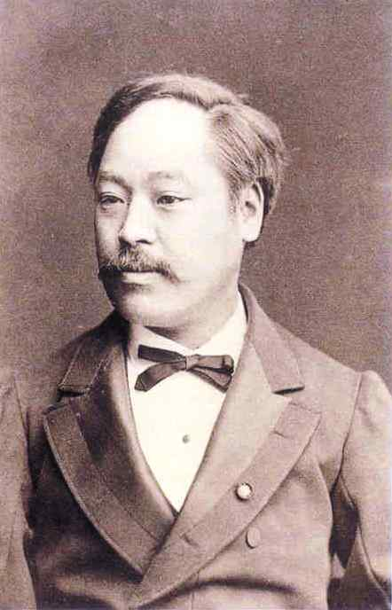 Prince Sanetsune Tokudaiji GCMG (徳大寺実則?, 10 January 1840 – 4 June 1919) was a Japanese statesman and Lord Keeper of the Privy Seal of Japan in the Meiji period.